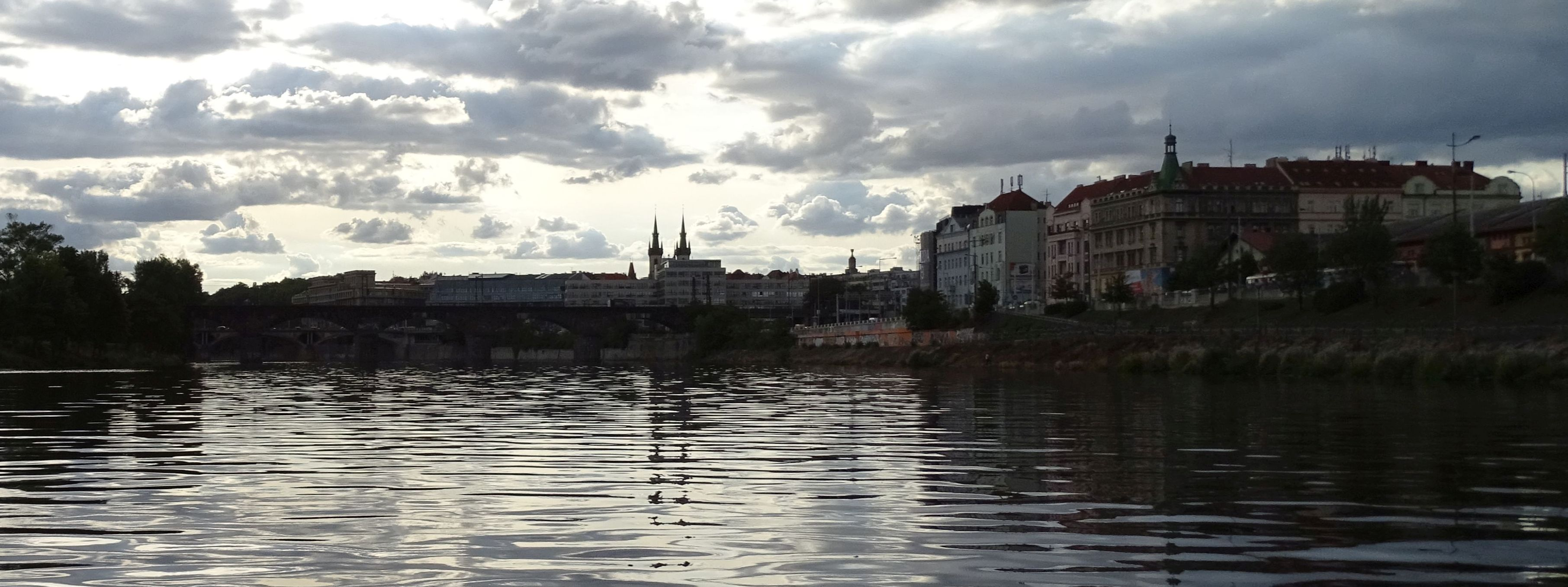 Prague-Holešovice, Czech Republic. Vltava river, seen from P7 ferry.